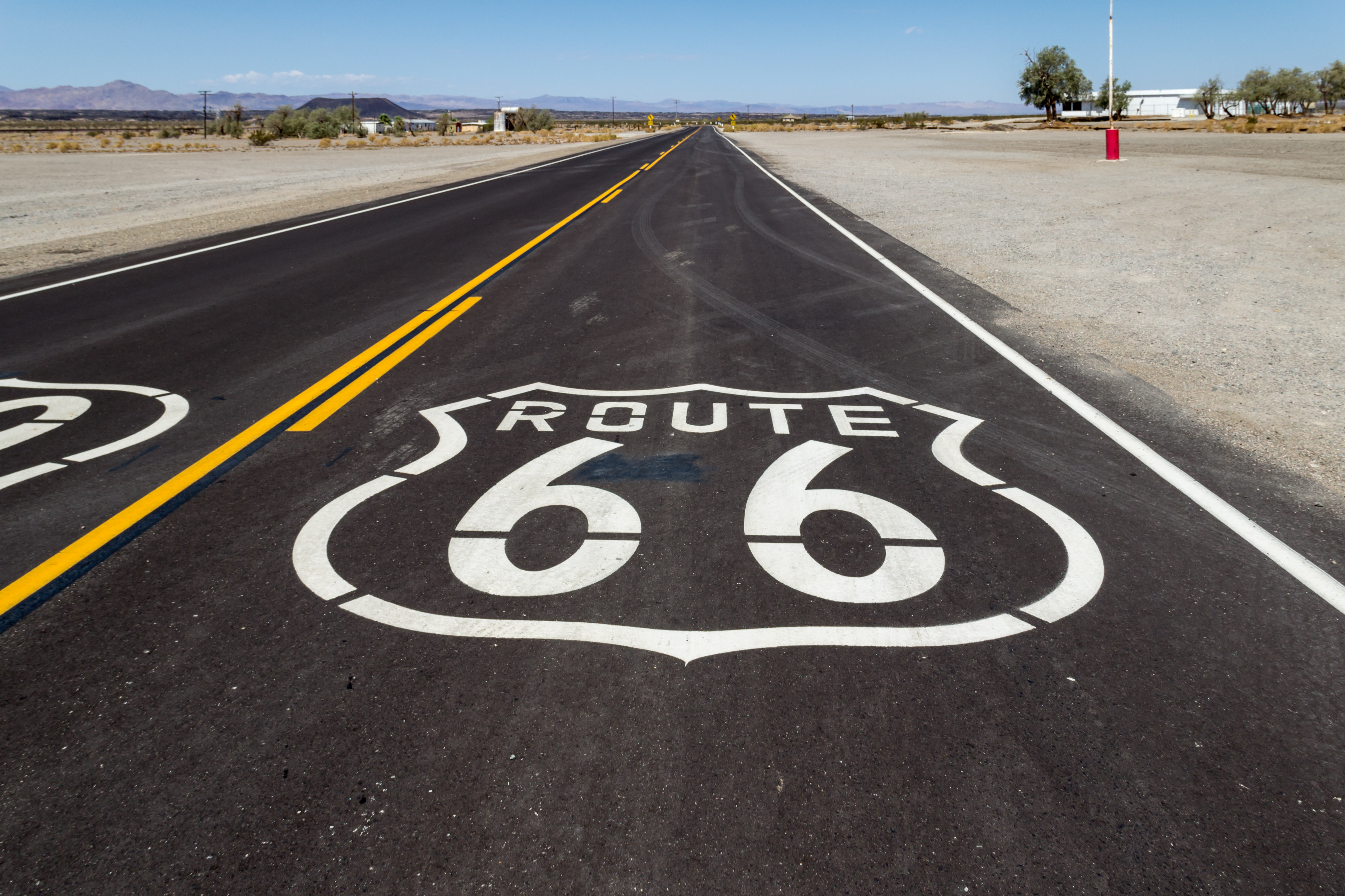 Hist. Route 66 near Amboy, California, USA